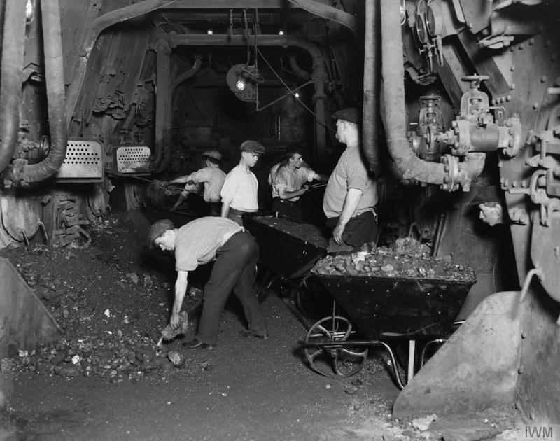 The Merchant Navy on the Home Front, 1914-1918 Men working in the stokehold of a merchant ship.